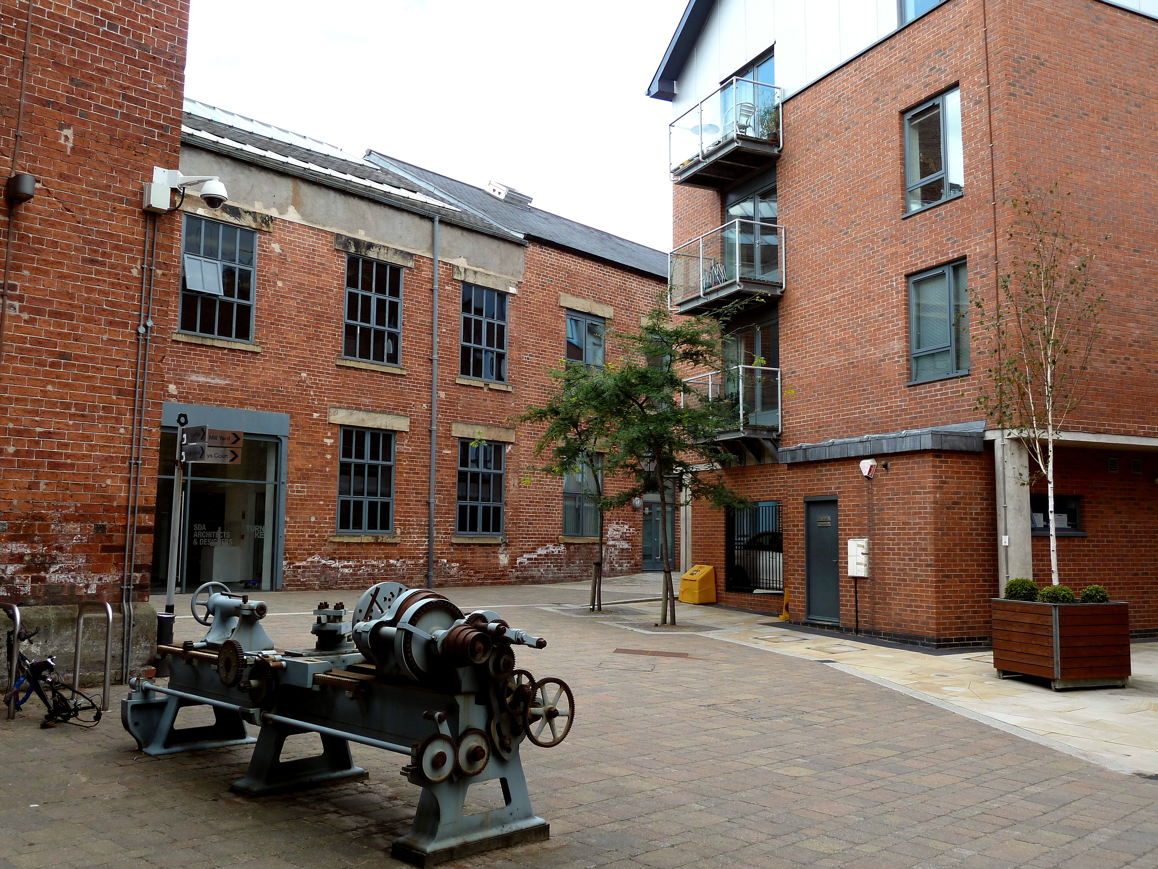 Holbeck Urban Village, Leeds, West Yorkshire, England